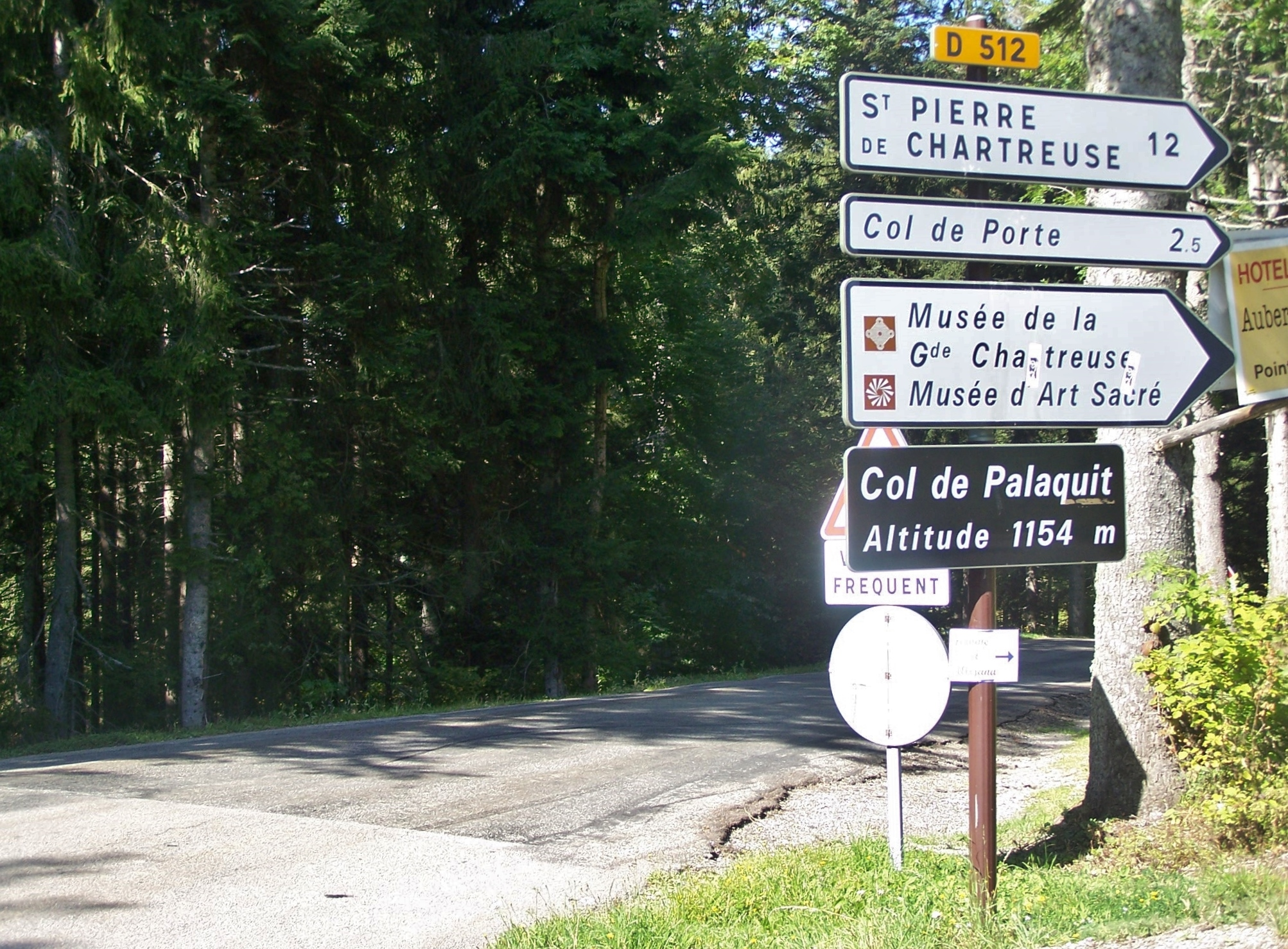 Sight of the roadsigns situated at the col de Palaquit pass, in Isère, France.